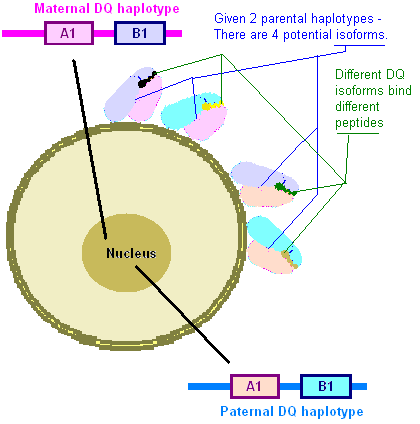 Image shows how 4 isoforms can be produced as a result of 2 different haplotypes. DQ genes are expressed within the nucleus, the resulting RNA are transported out of the nucleus and independently translated into polypeptides and transported across the endoplasmic reticulum where alpha and beta chains are process and fold into their final form, a DQ heterodimer. While some alpha may prefer to pair with certain beta, in many instances they can pair to an isoform encoded by the other 'parents' haplotype resulting in a trans-isoform. When the isoforms are encoded by the same haplotype, the form a cis-haplotype isoform.